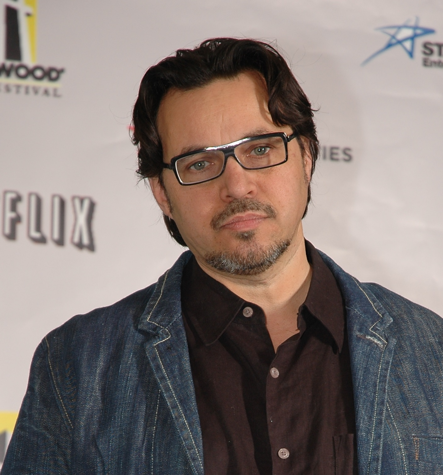 Picture of Davidoff Sergei